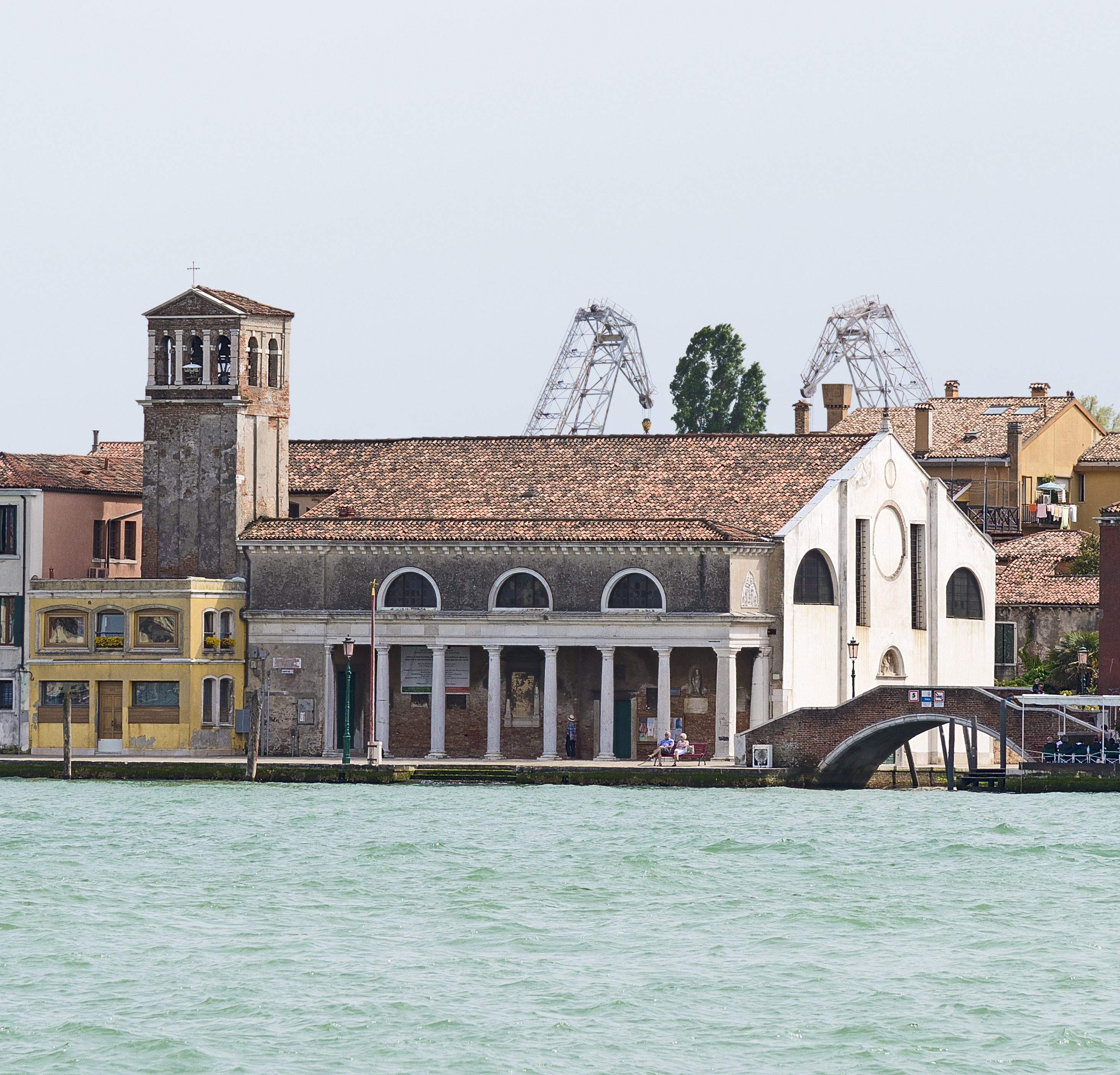 Church of Sant'Eufemia Venice from Canal della Giudecca.